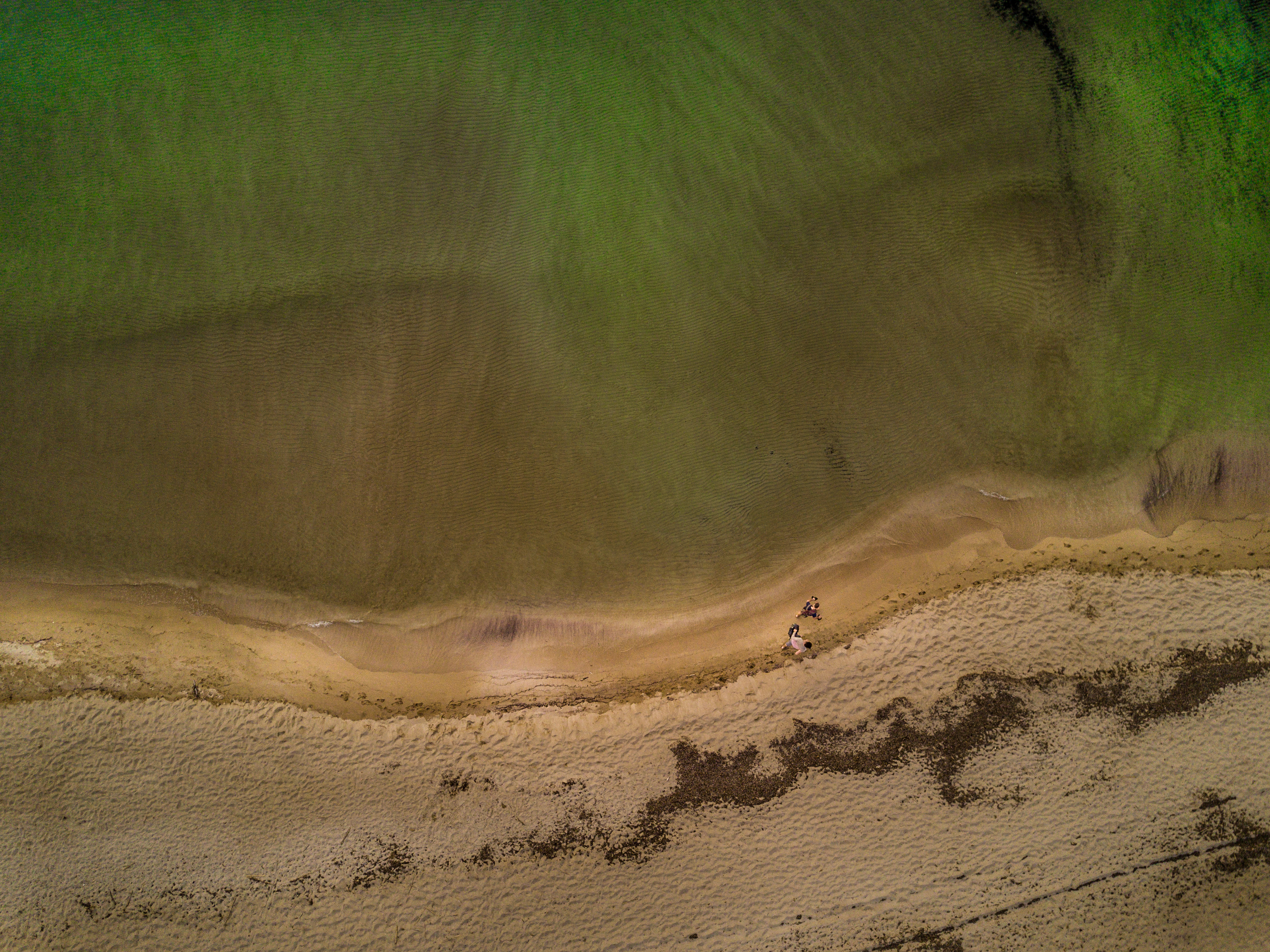 Air view of Voidokilia Beach in Messinia This is a photography of Natura 2000 protected area with ID GR2550004